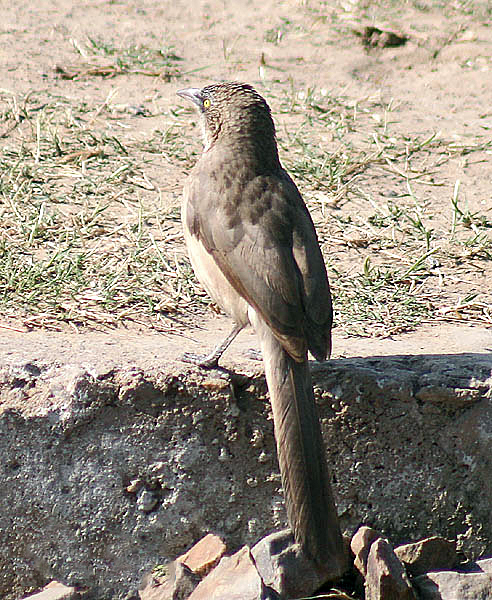 Large Grey Babbler Turdoides malcolmi at/ near Hodal in Faridabad District of Haryana, India.